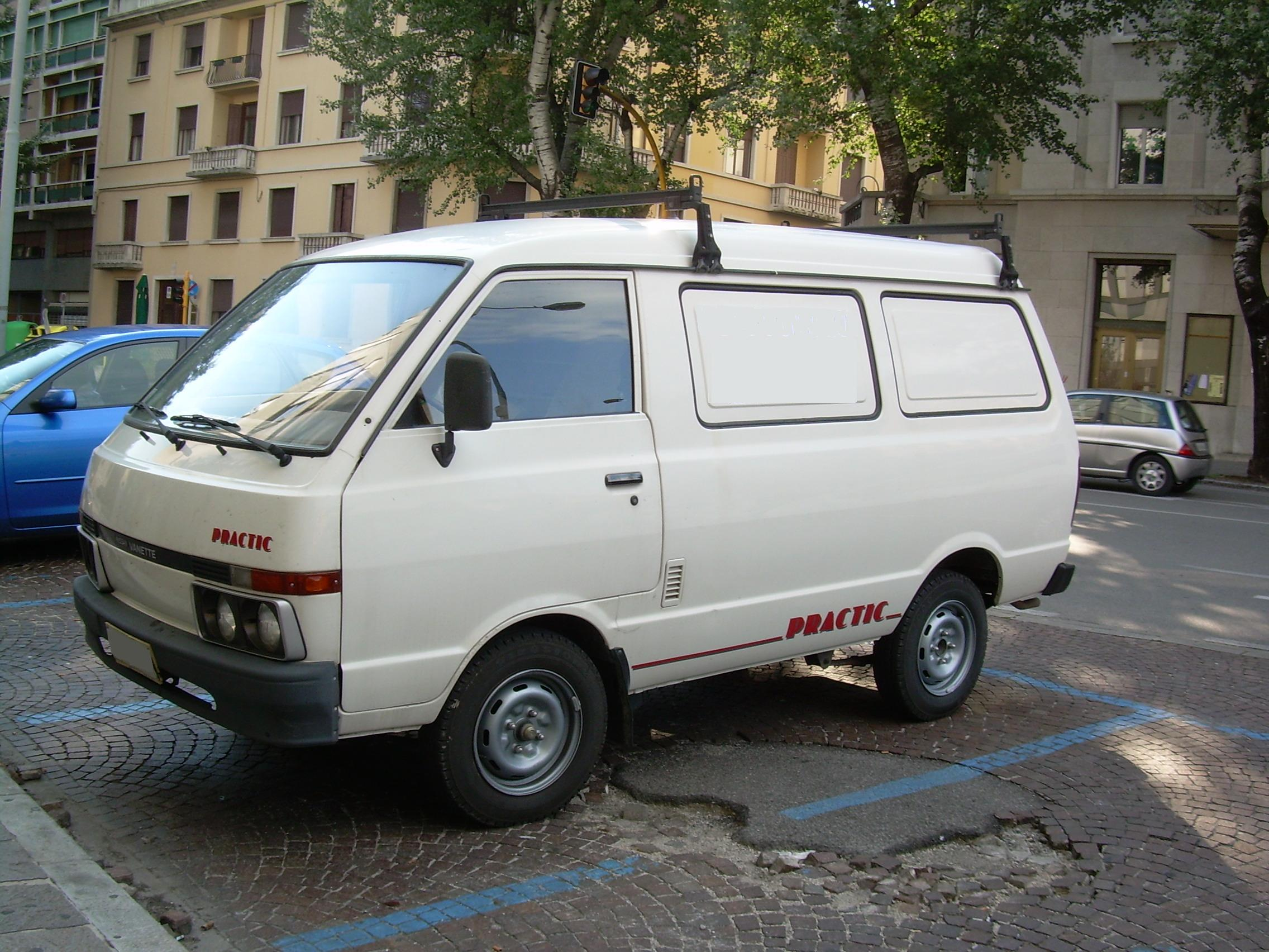 A Spanish-built C220 Vanette Cargo of the second series